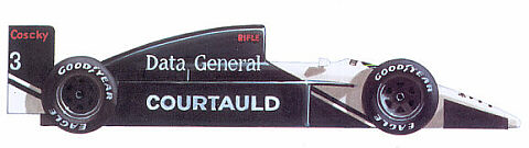 Tyrrell DG016 Formula 1 car, used in the season 1987 by Tyrrell Racing